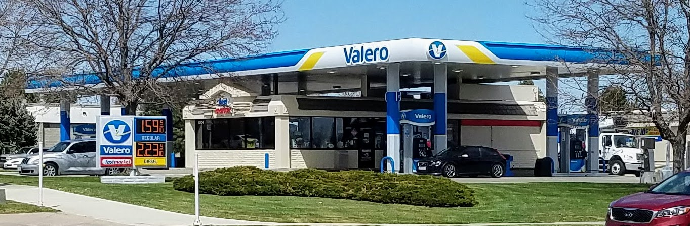 New Valero design gas station with low unleaded price during the pandemic